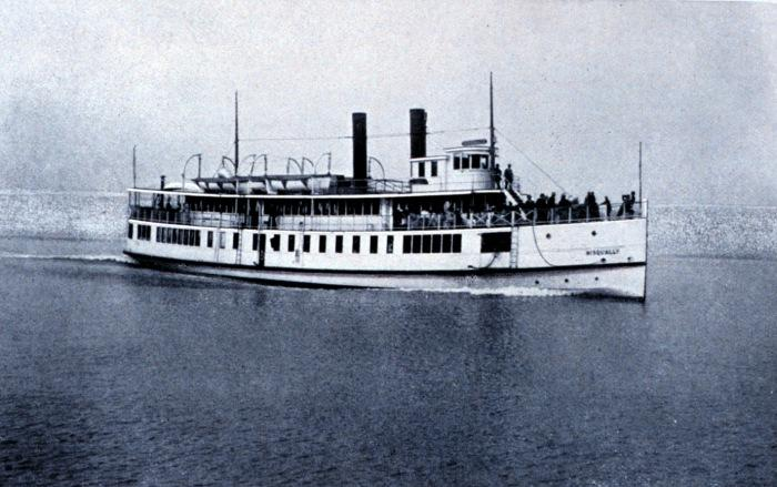 Steamer Nisqually, in 1912.